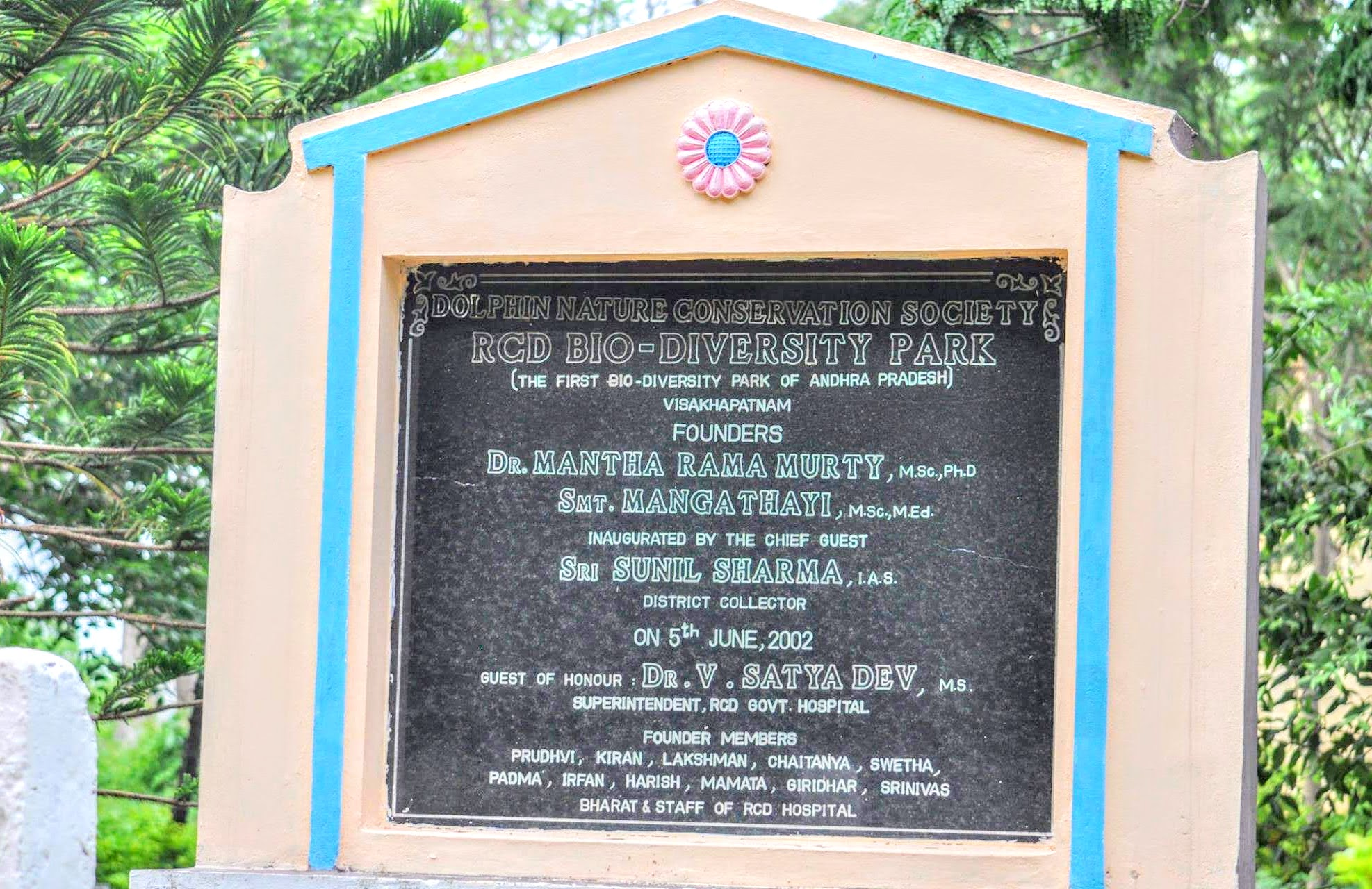 DNCS-Biodiversity Park, Visakhapatnam Inauguration 5th June 2002